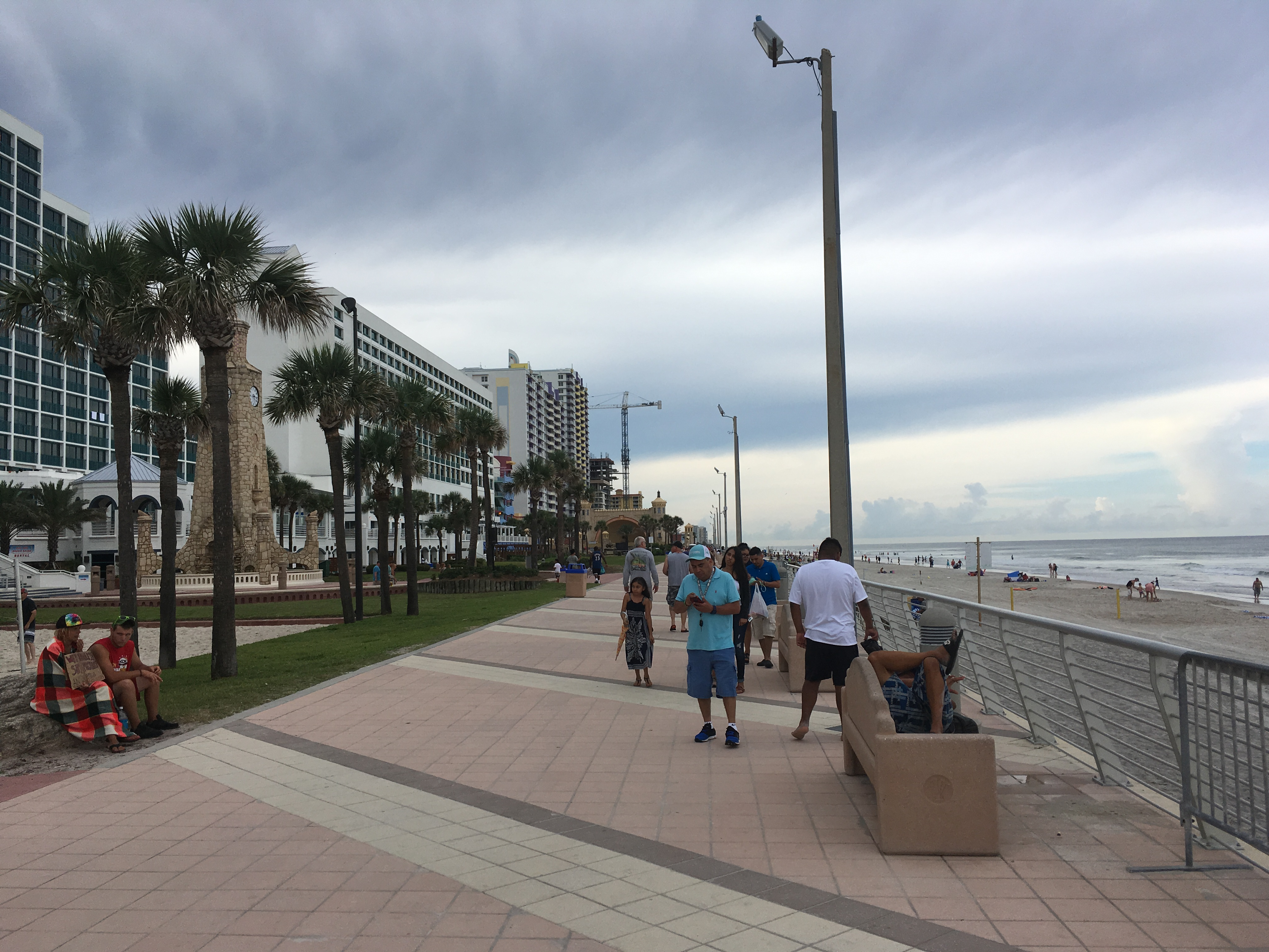 A view of the boardwalk in Daytona Beach, Florida looking north.